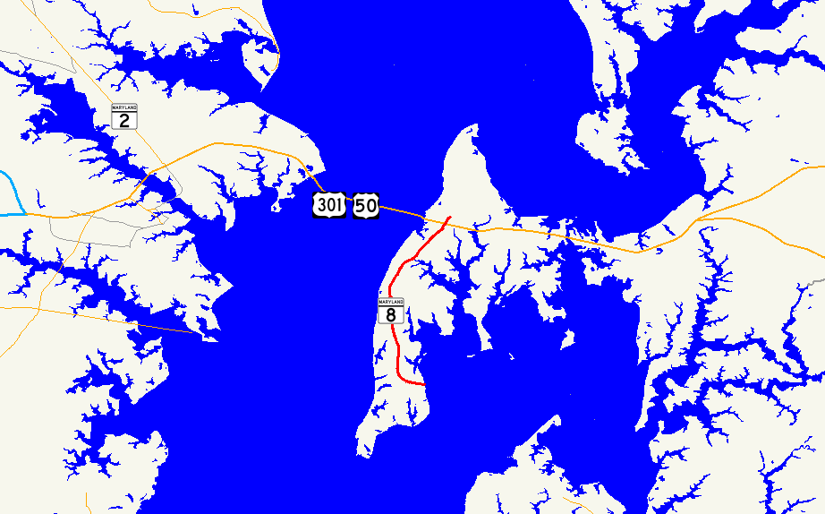 Map of MD Route 8